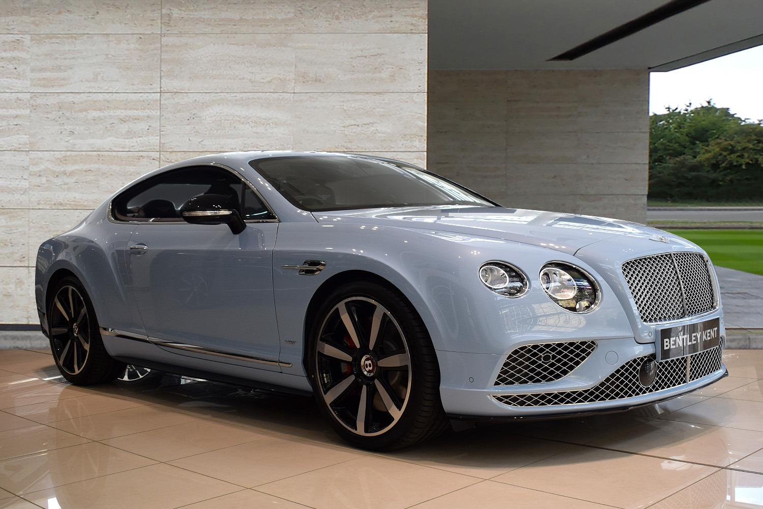 Bentley mulsane blue